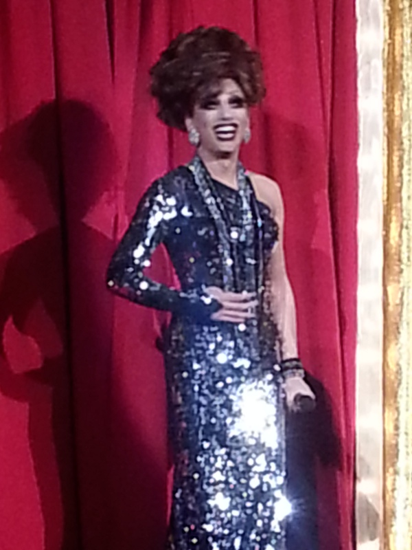 Bianca Del Rio performing a stand-up act at the Drag Queens of Comedy show at the Castro Theatre in San Francisco, California, United States.